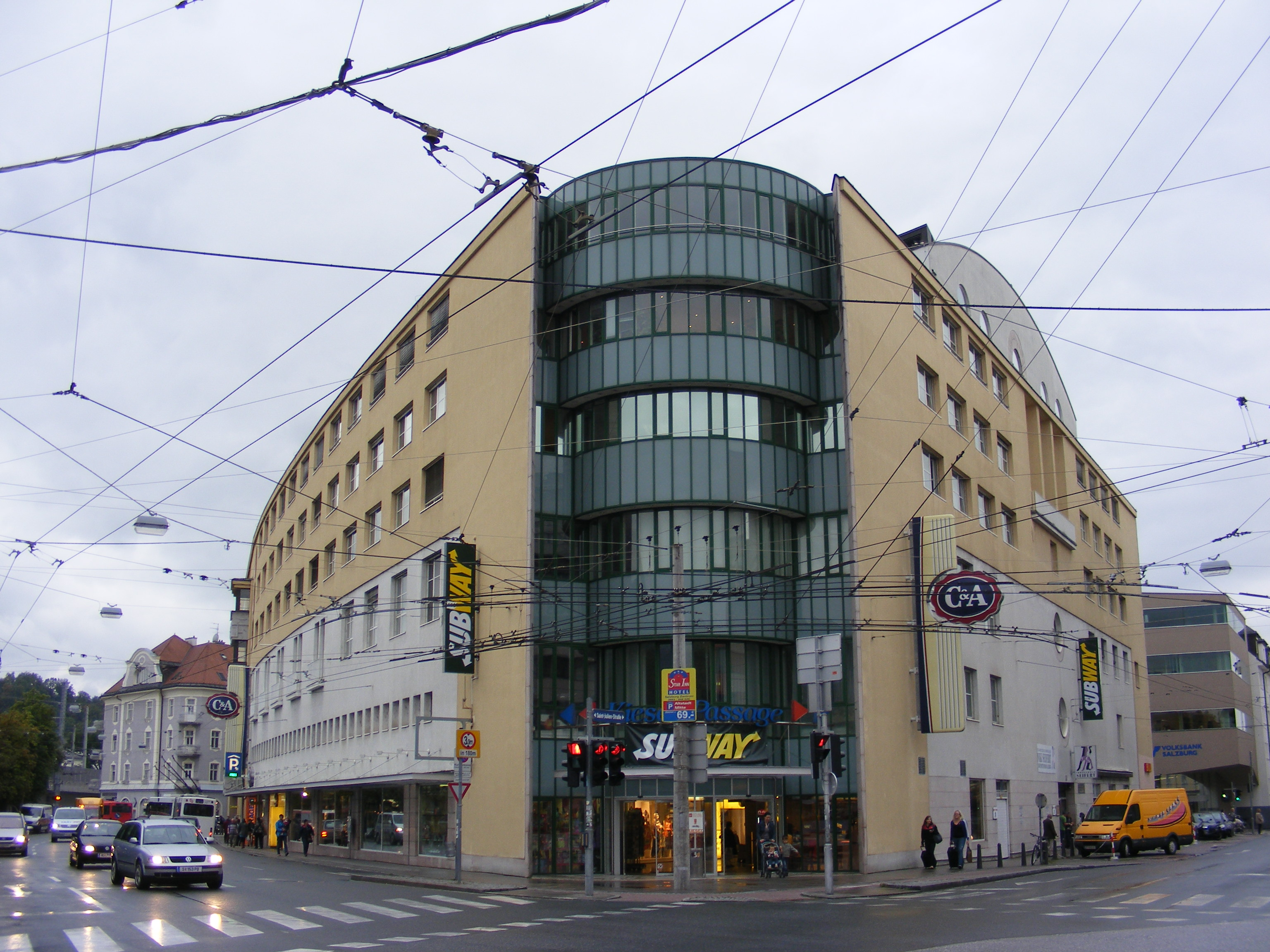 Kiesel building, Salzburg, Austria; built in 1926